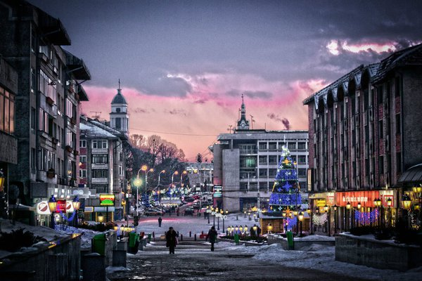 Ștefan cel Mare Street in Suceava / Suceava City Center.